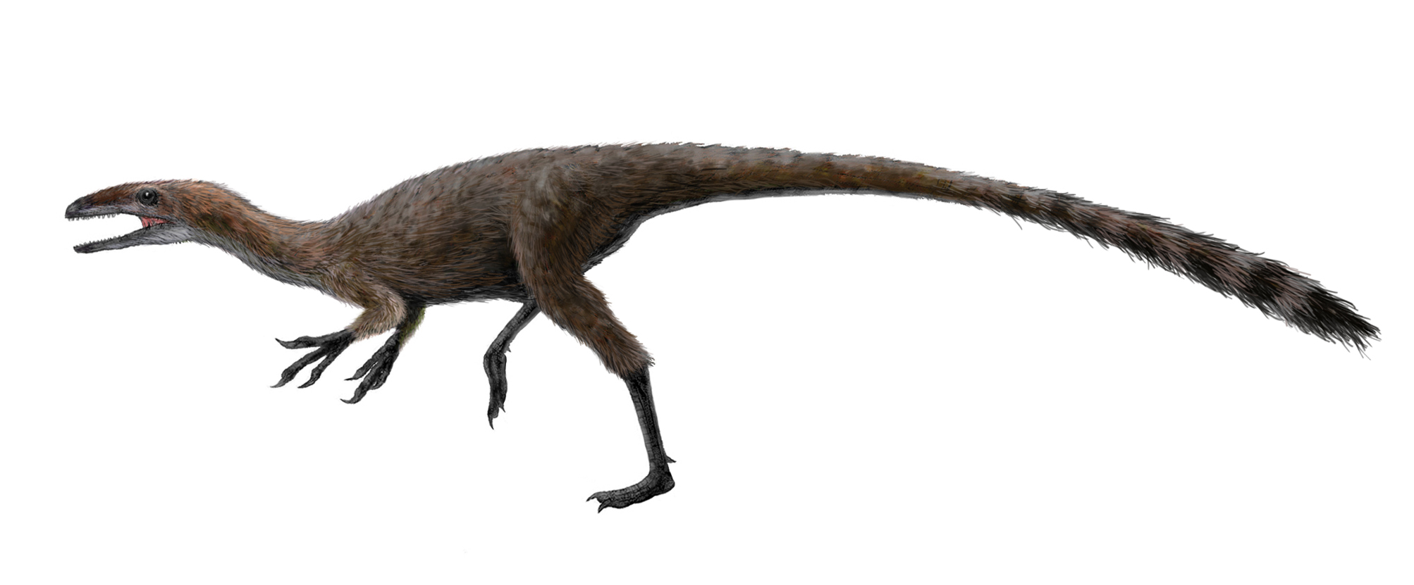 Aristosuchus pusillus, based on related coelurosaurs.